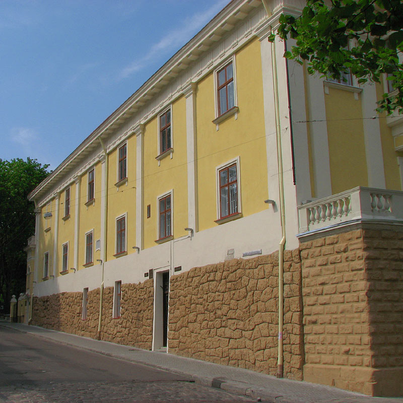 Arsenal of Seniavski-Family in Lviv, Ukraine